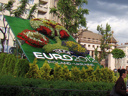 UEFA Euro 2012